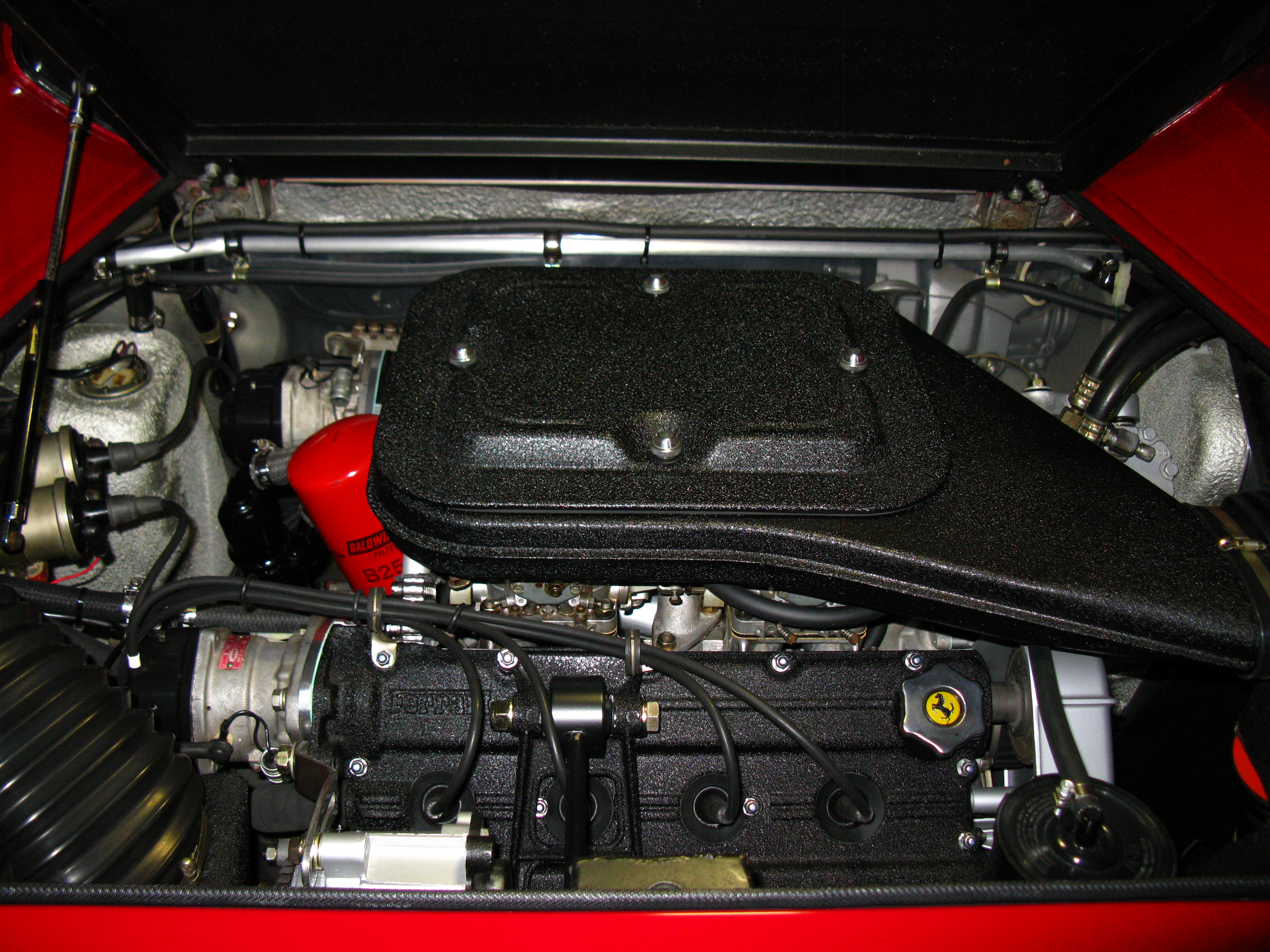 1975 Ferrari Dino 308 GT4 Engine US Version Other information This photo shows the black wrinkle painted valve covers as on Ferrari's own Factory photo, production cars had plain aluminum valve covers.